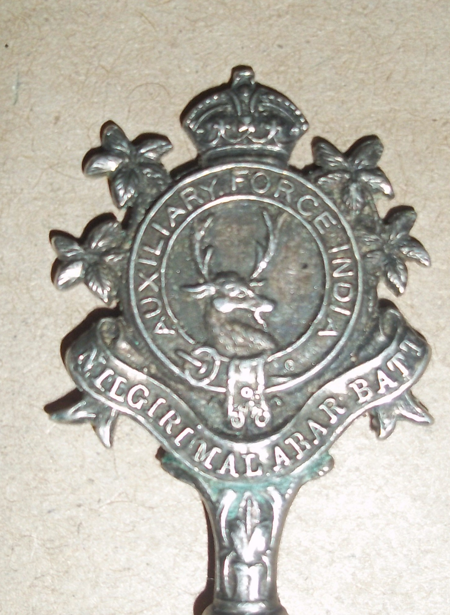 silver spoon NMB Badge engraving